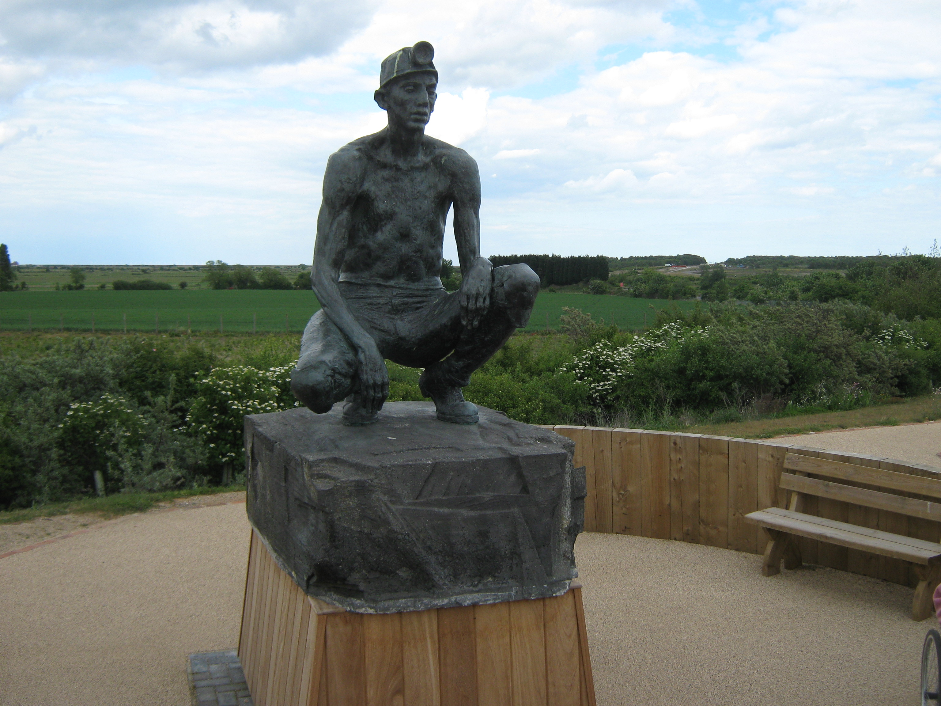 Miner's Statue near the roundabout on the A258